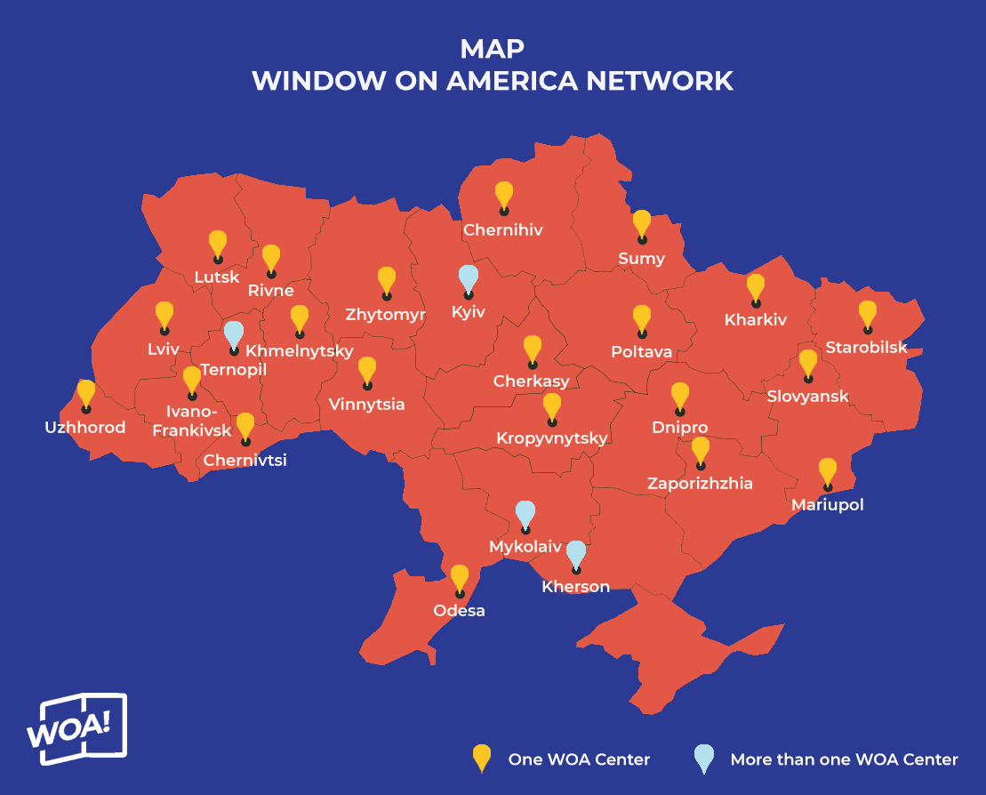 The map of the WOA Ukraine centers.